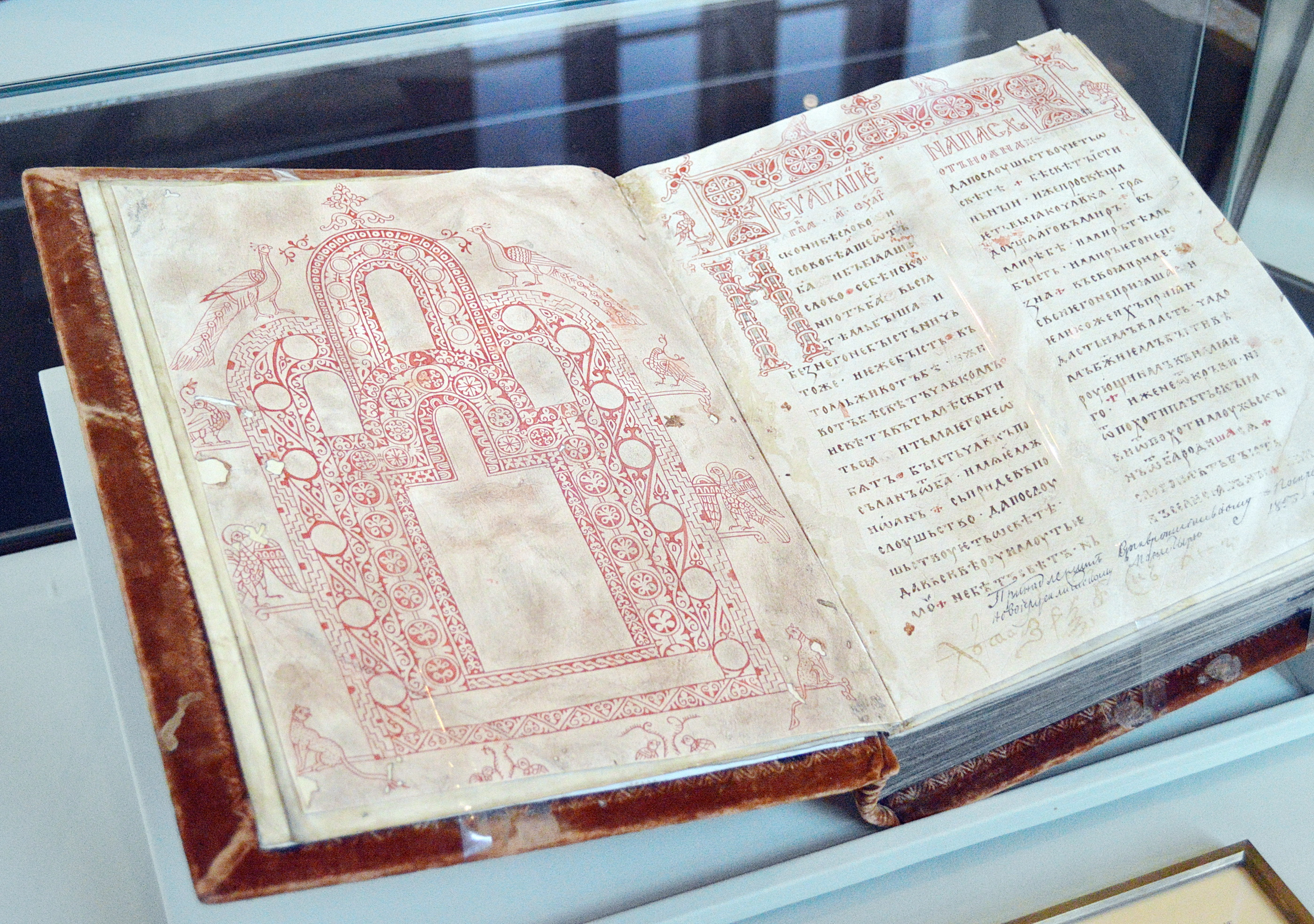 Yurevskoe Gospel, Novgorod, 1119-1128.